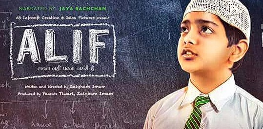 Official poster of our film